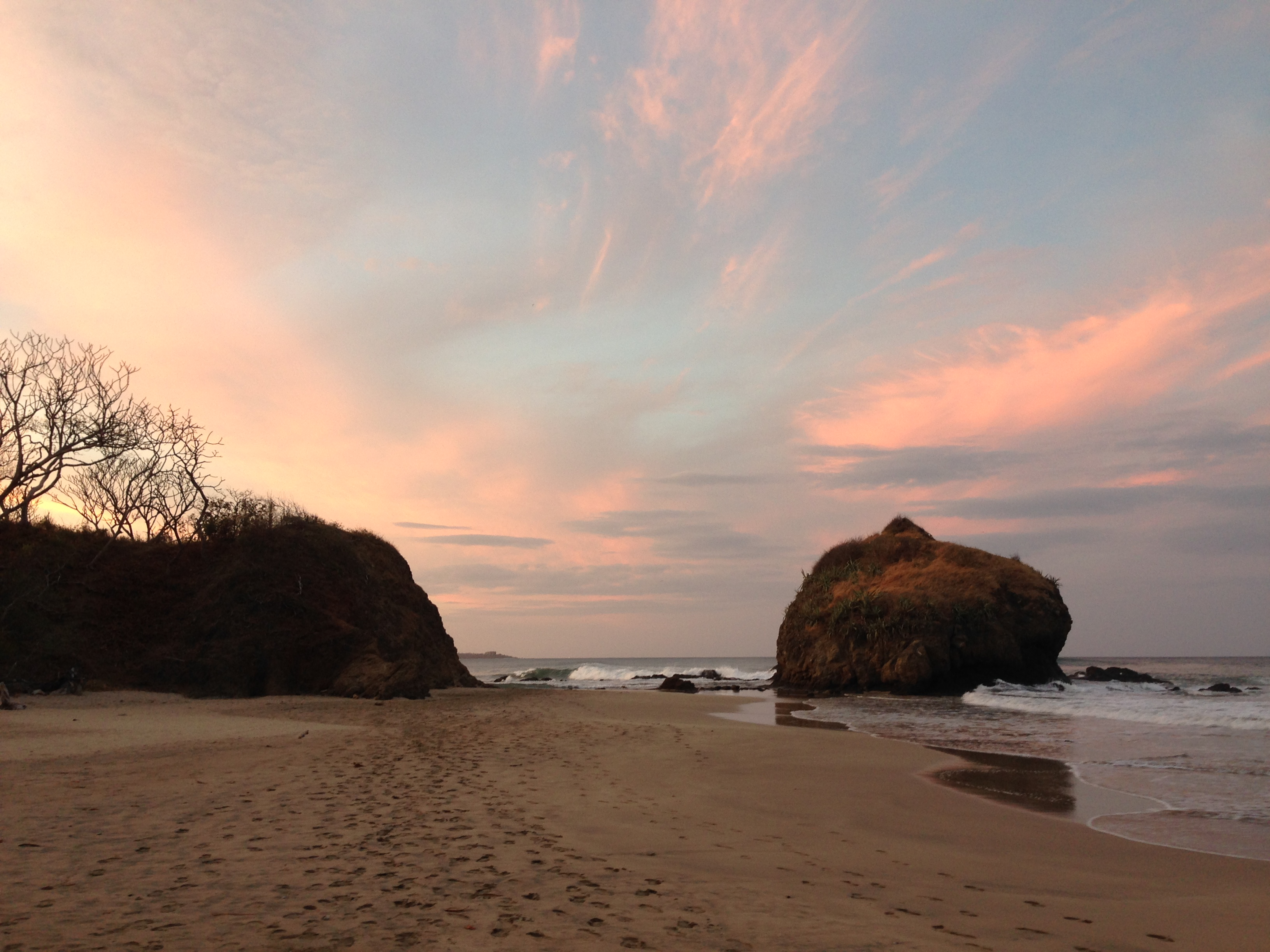 A photo of a rock in the ocean at Playa Grande, Costa Rica